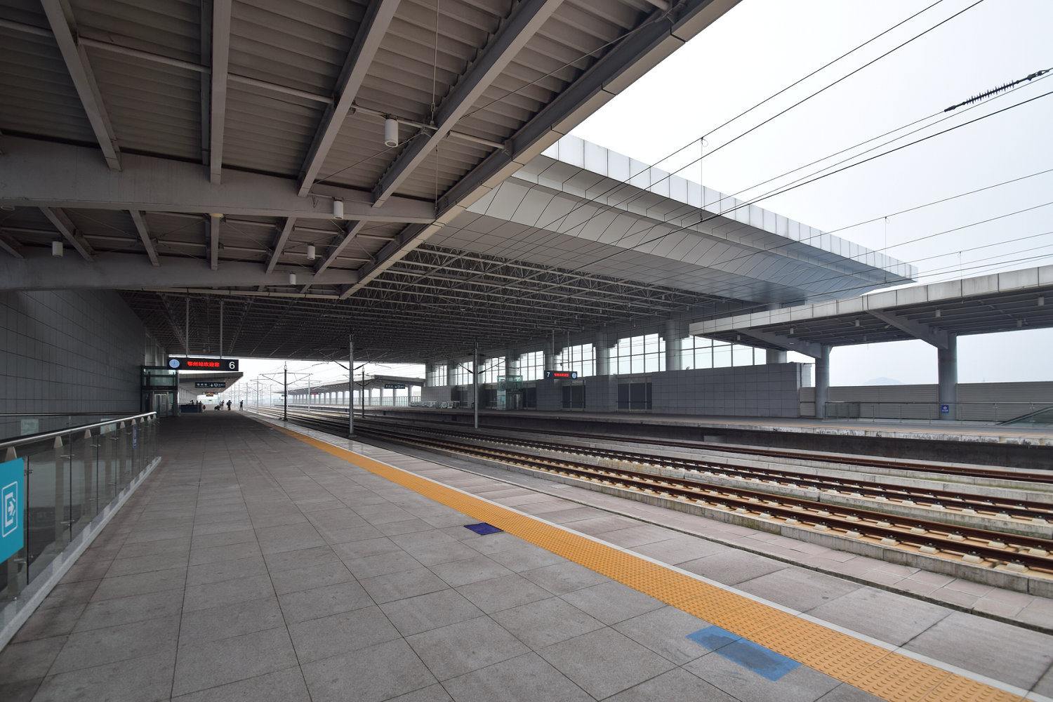 Wuhan-Jiujiang High-Speed Railway Platform 6-7 of E'zhou Railway Station, view towards E'zhou Dong (East) Railway Station.